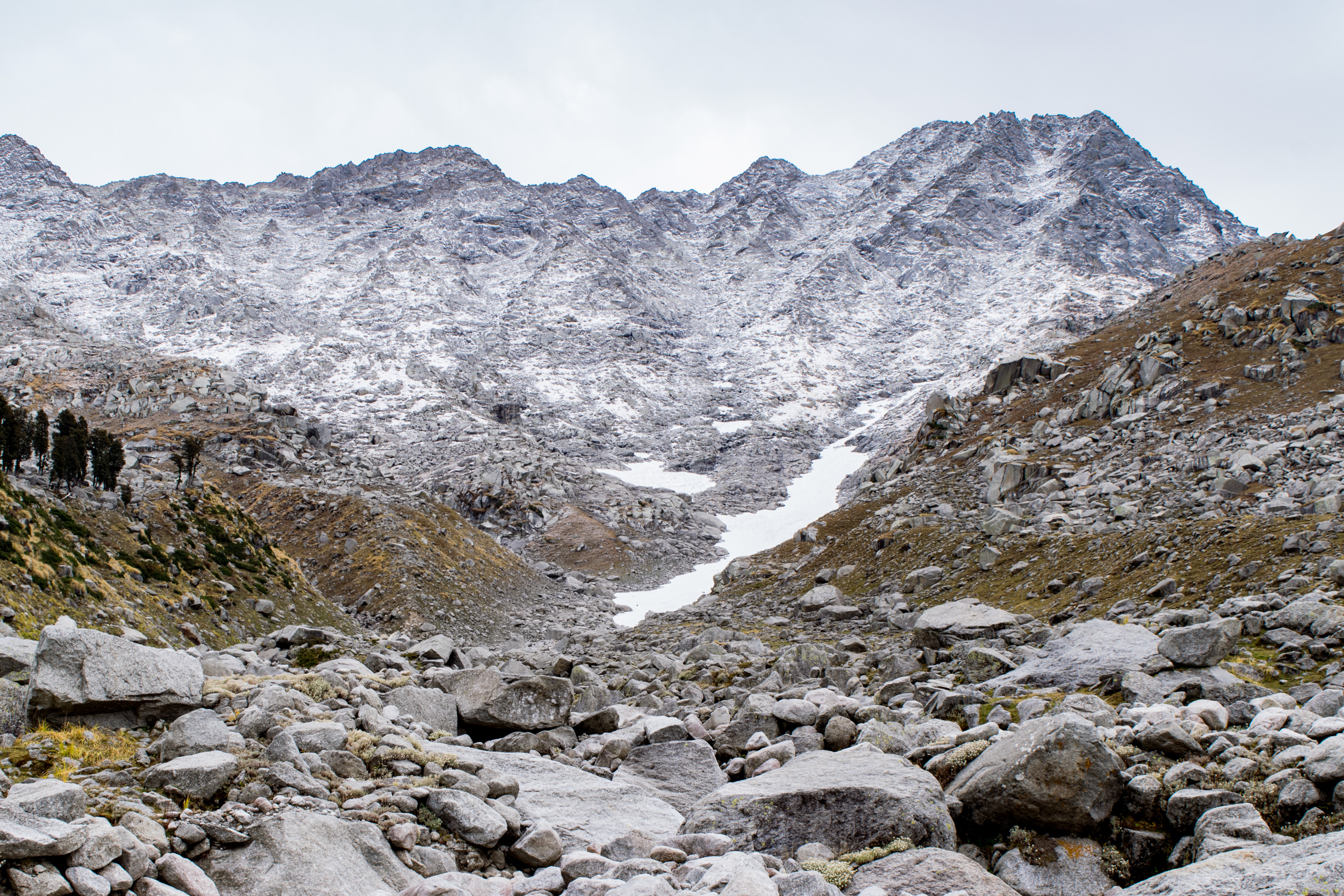 Looking up to the Indrahar Pass